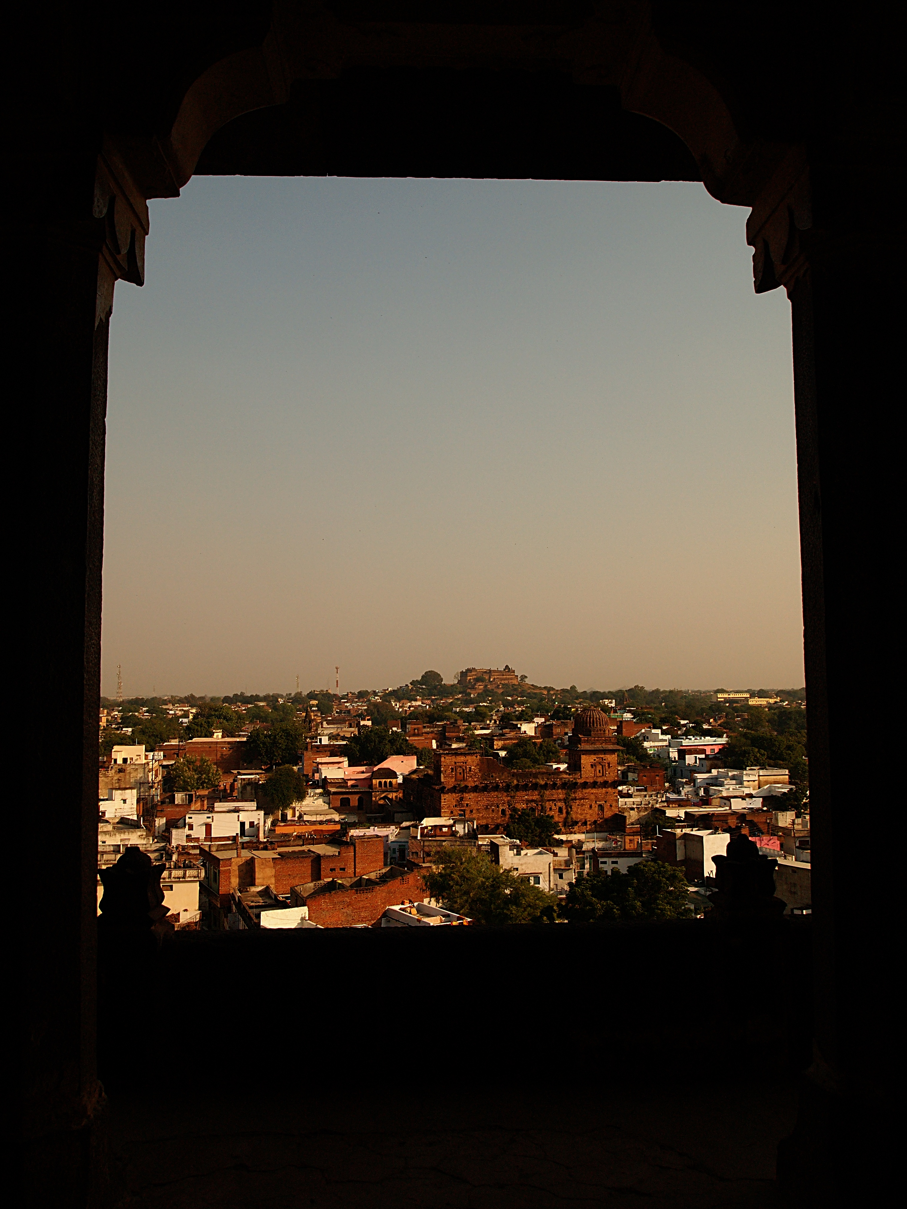 Beer Singh Palace